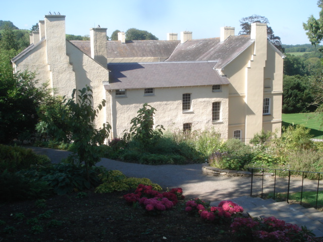 Aberglasney House rear view From the Bishop Rudd's Walk, there is a good view over the main house. The courtyard area in the centre is now covered by a glass roof to form the Ninfarium, housing tropical planting. The name Ninfarium was derived from the amazing gardens at Ninfa, which are situated south of Rome.